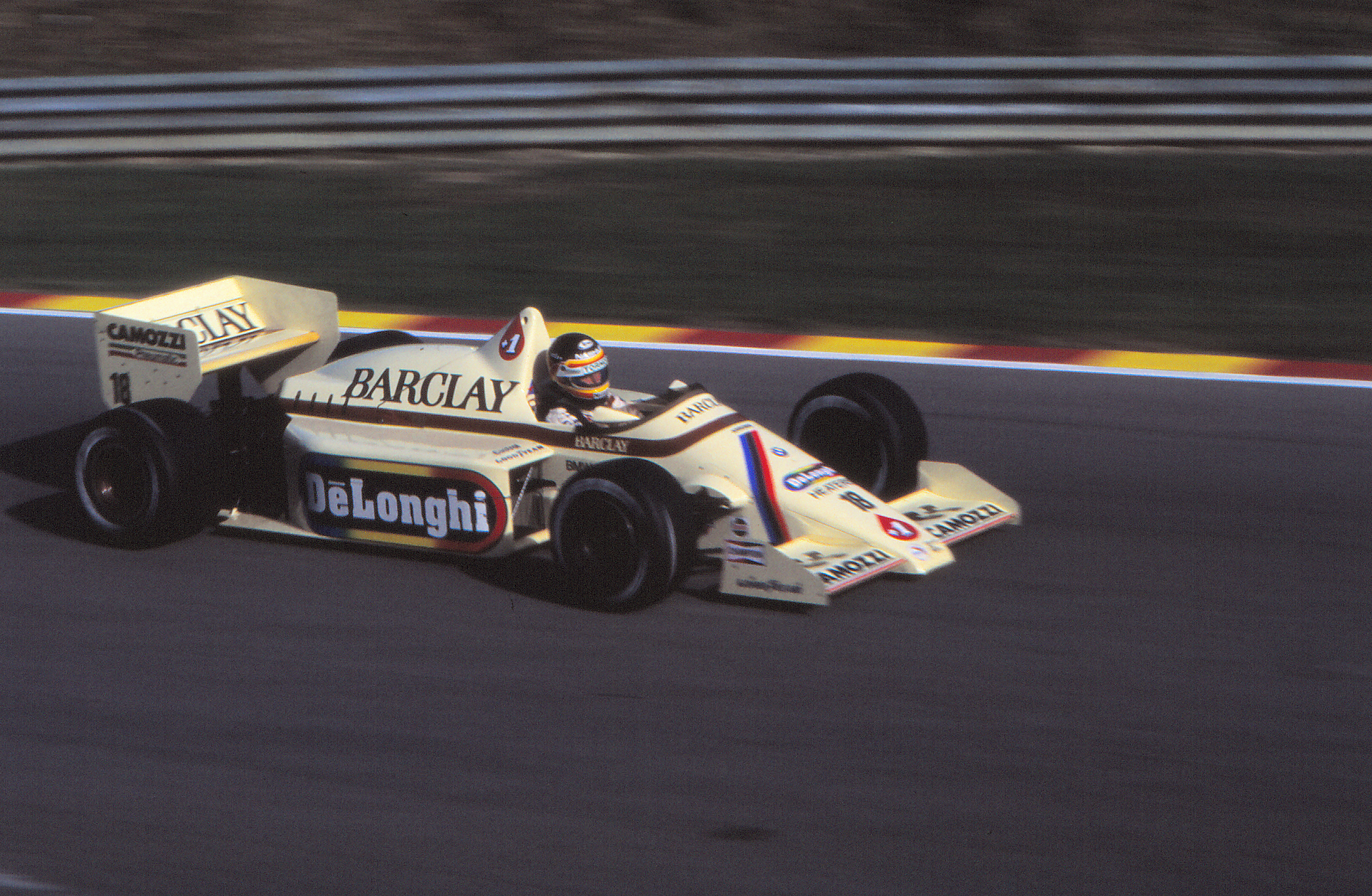 Thierry Boutsen during practice for the 1985 European Grand Prix